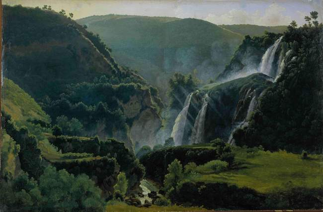 "Paysage du Latium avec cascades", oil on paper, 38 x 58 cm